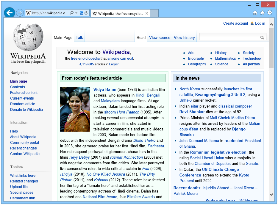 nternet Explorer 10 (10.0.9200.16384), showing Wikipedia's main page running on Windows 8